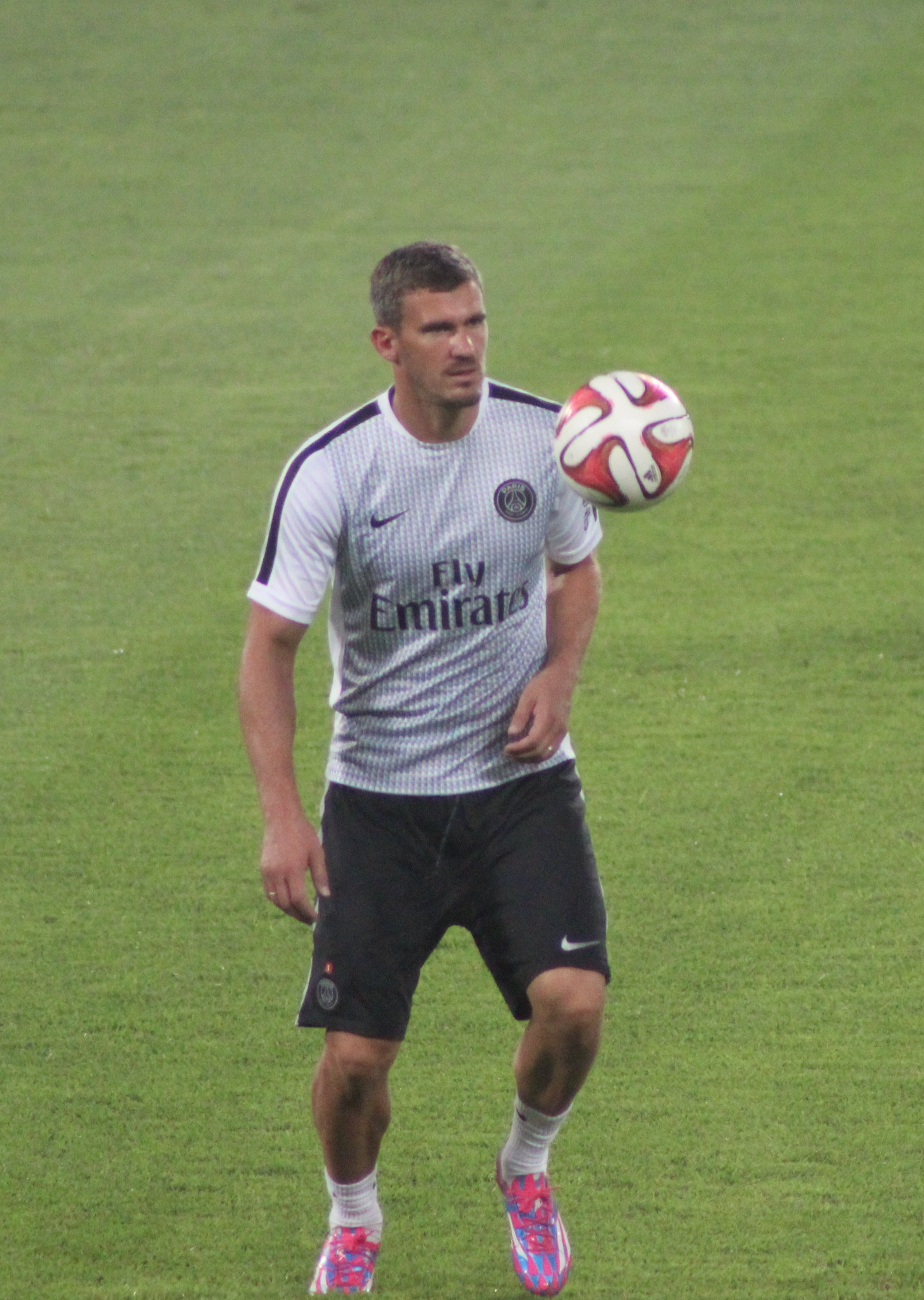 Football goalkeeper Nicolas Douchez during 2014 Trophée des Champions pre-game warm-up with Paris-Saint-Germain in Beijing, August 2014.